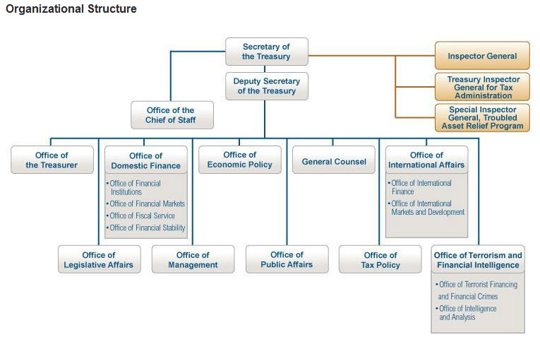 Organization of the United States Department of the Treasury